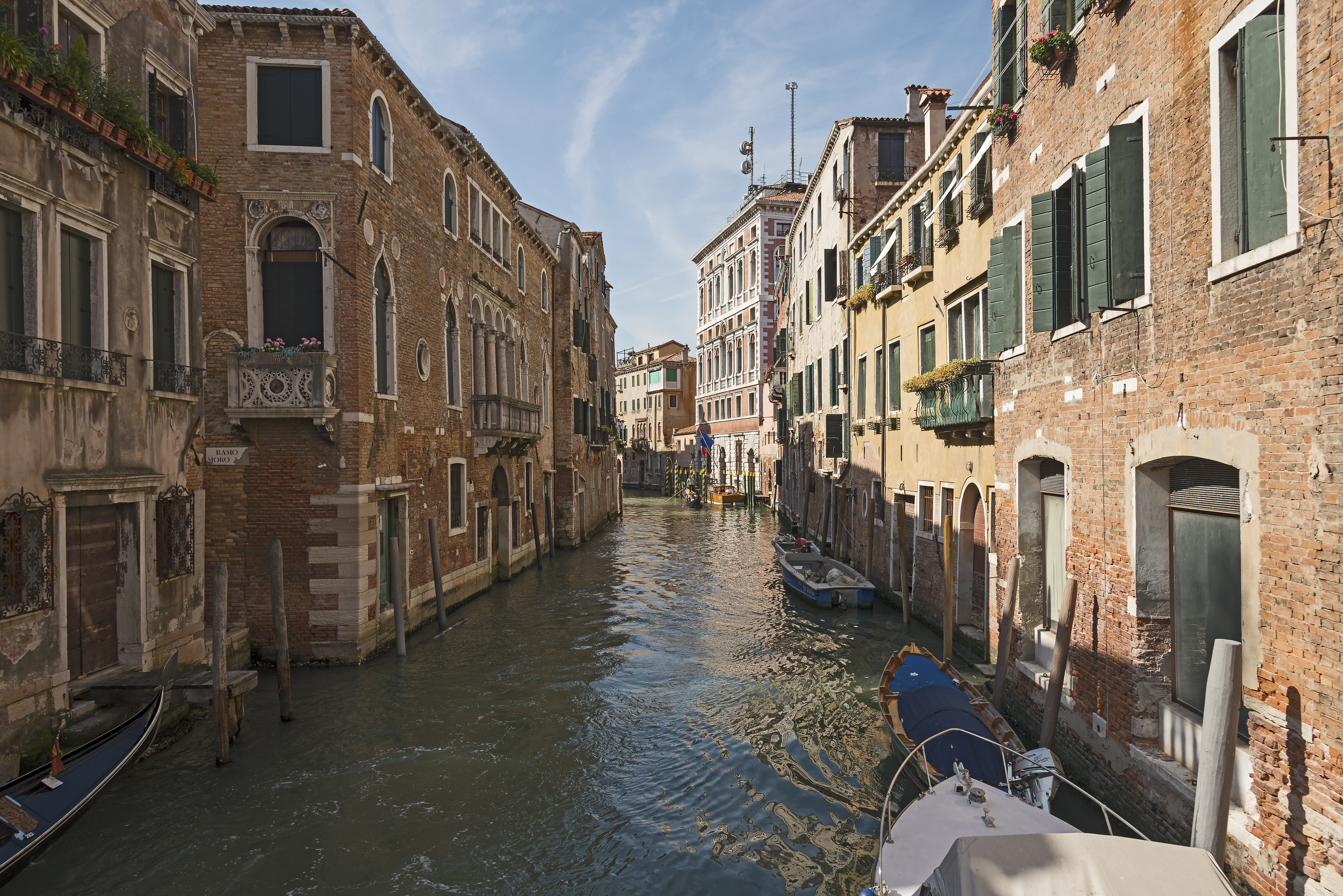 Rio de San Polo in Venice. The rio view from ponte San Polo to the north.